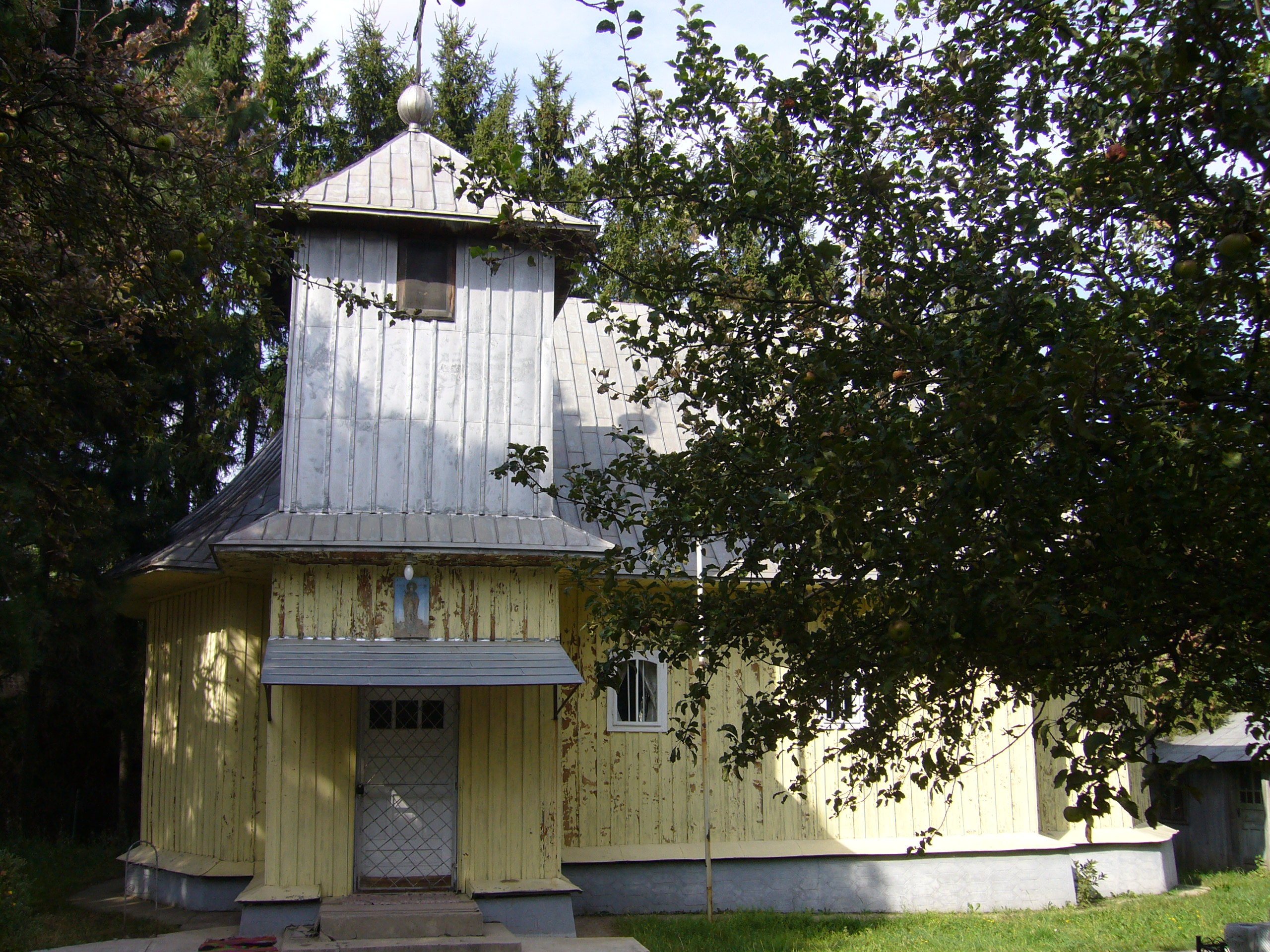 Biserica de lemn din Cumpărătura